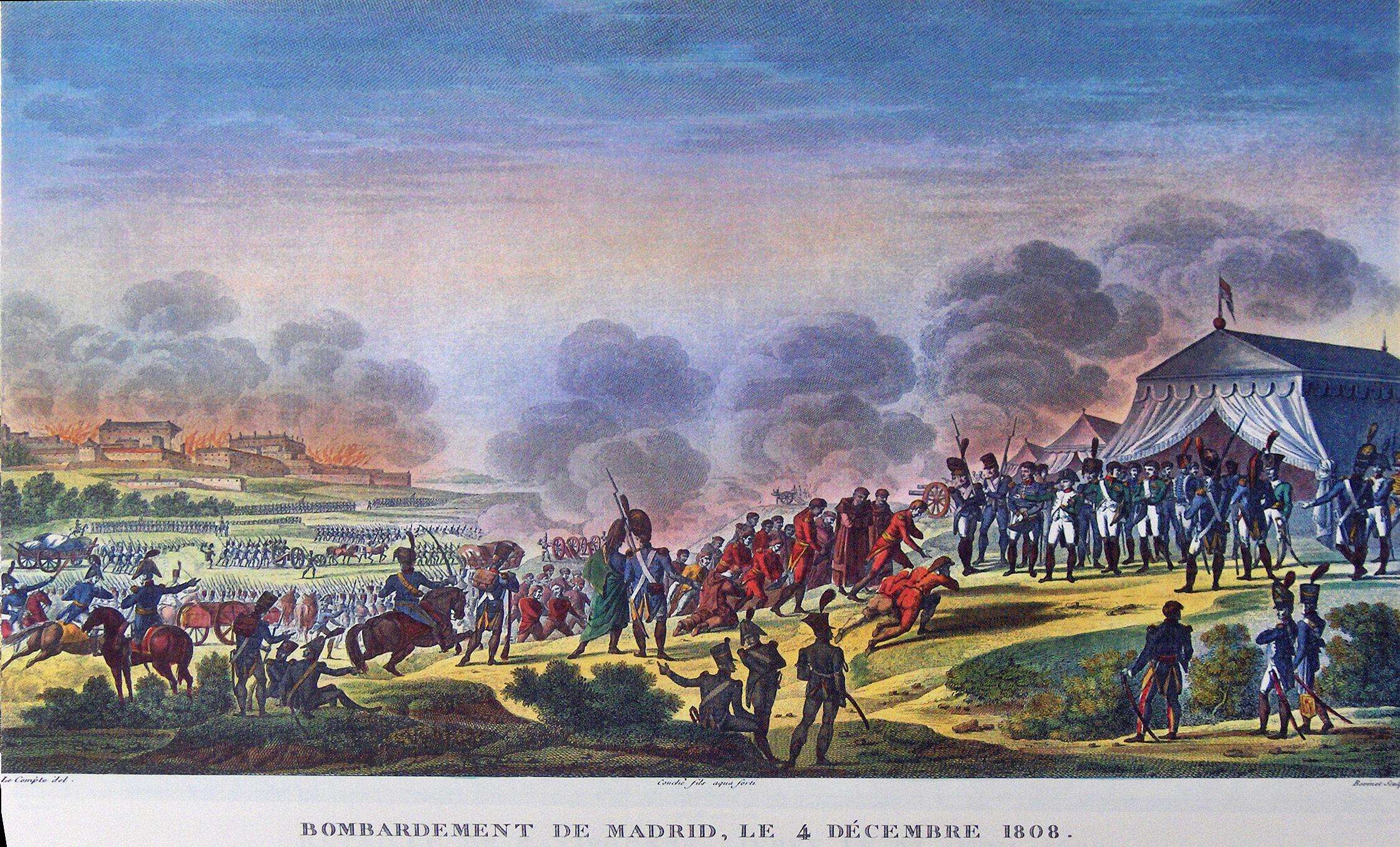 "Surrender of Madrid" colored litho by Antoine Charles Horace Vernet (called Carle Vernet)(1758 - 1836) and Jacques François Swebach (1769-1823)